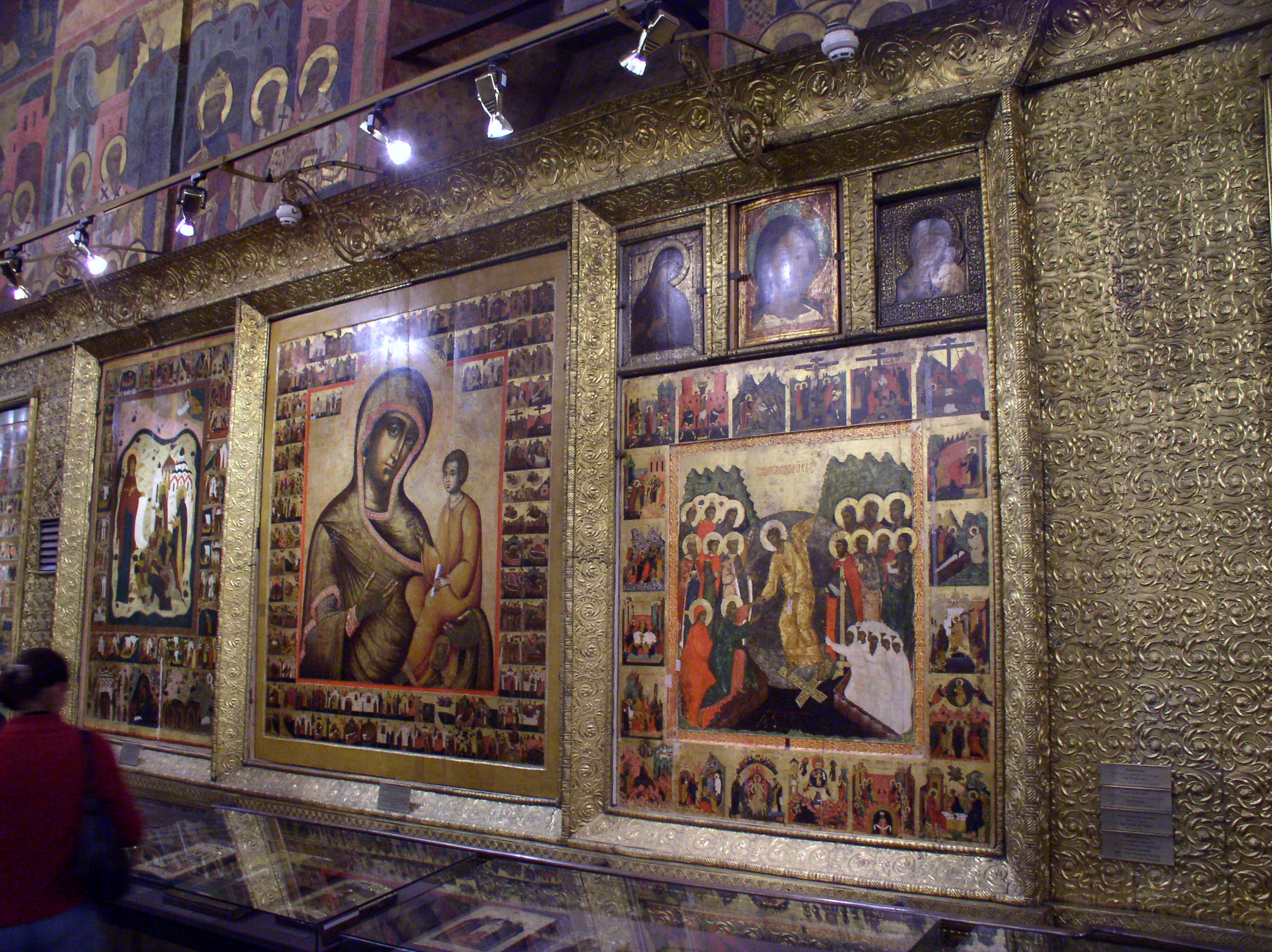 Moscow Kremlin museums exhibitions. Moscow, Russia.